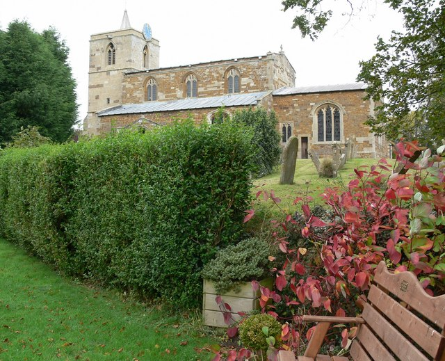 Church of England parish church of All Saints, Braunston-in-Rutland.